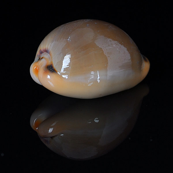 Luria lurida lurida